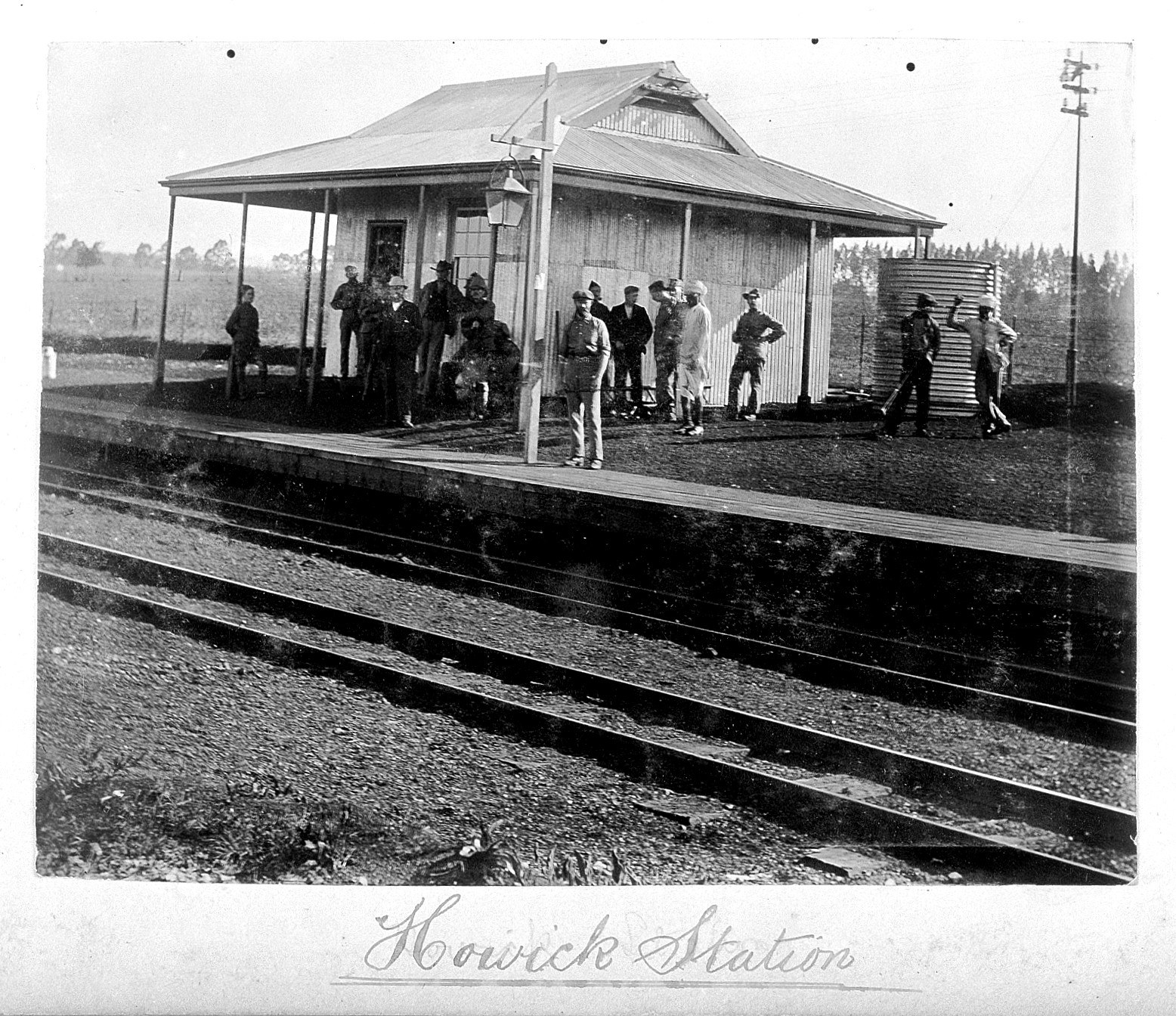 Page 42: Photograph of Howick Station. Archives & Manuscripts